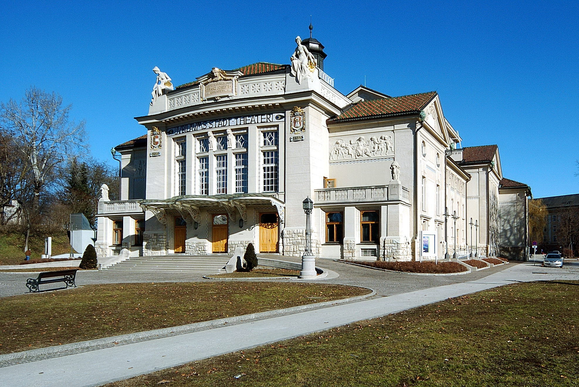 City theater (Architects: F. Fellner and H. Helmer) on Theaterplatz #4, inner city of Klagenfurt, Carinthia, Austria, EU